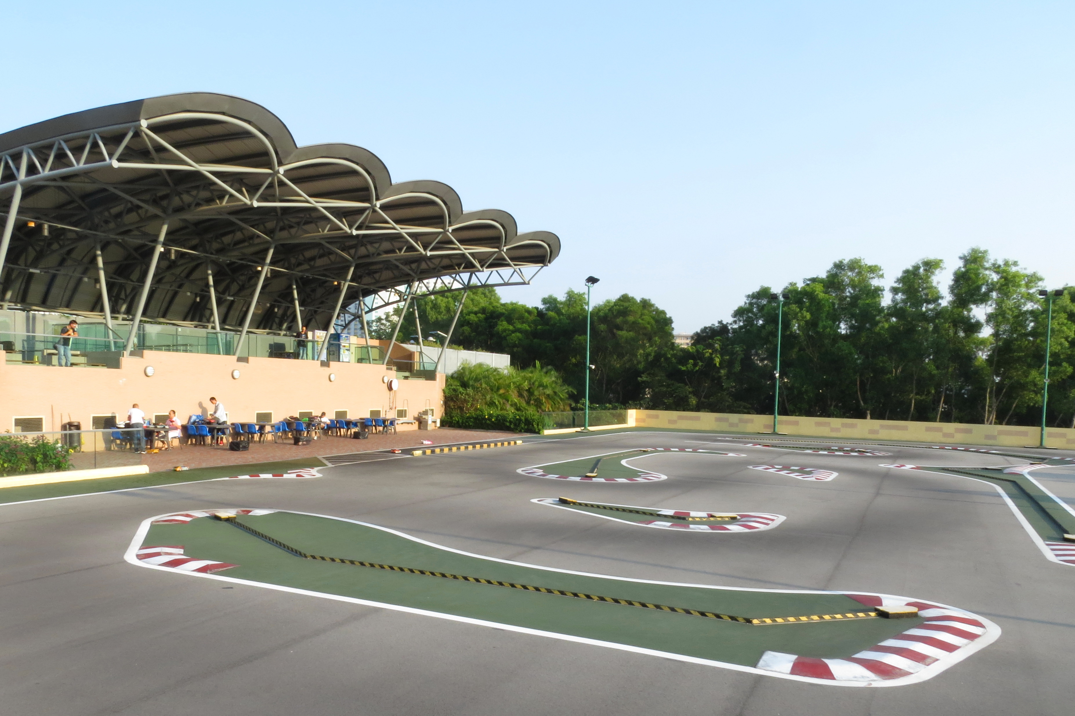 Radio-Controlled Model Car Racing Circuit, Jordan Valley Park, Kowloon, Hong Kong.